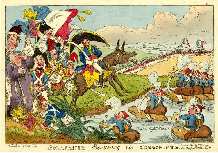 British cartoon of 1813 satirising Napoleon's conscription acts of that year